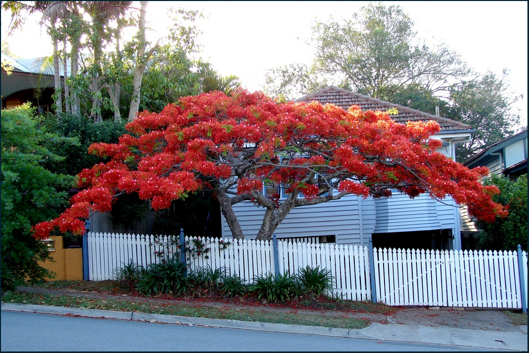 You do not have to be from a royal family and leave in a royal palace, but you can have the Royal Poinciana in your garden, while simply leaving in “Queenslander” style house! Location: Toowong, Brisbane, Australia